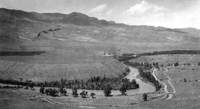 South Fork Shoshone River. Panorama with image 1299. View showing second and third terraces (left and middleground) and second terrace (?) at right. Dike at left cutting shale below mountains of volcanic breccia. Absaroka Mountains. Park County, Wyoming. July 5, 1923